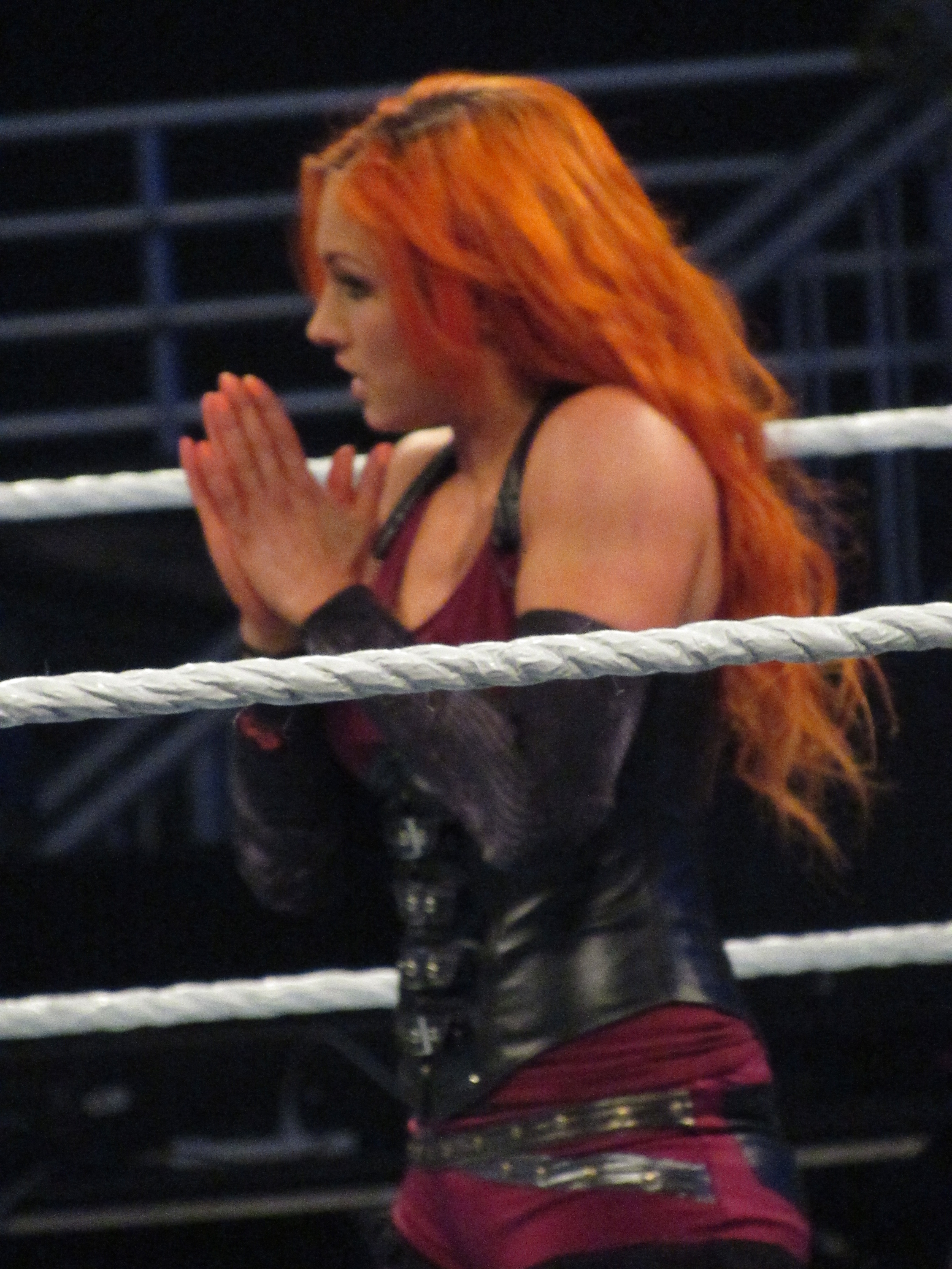 Becky Lynch in January 2016